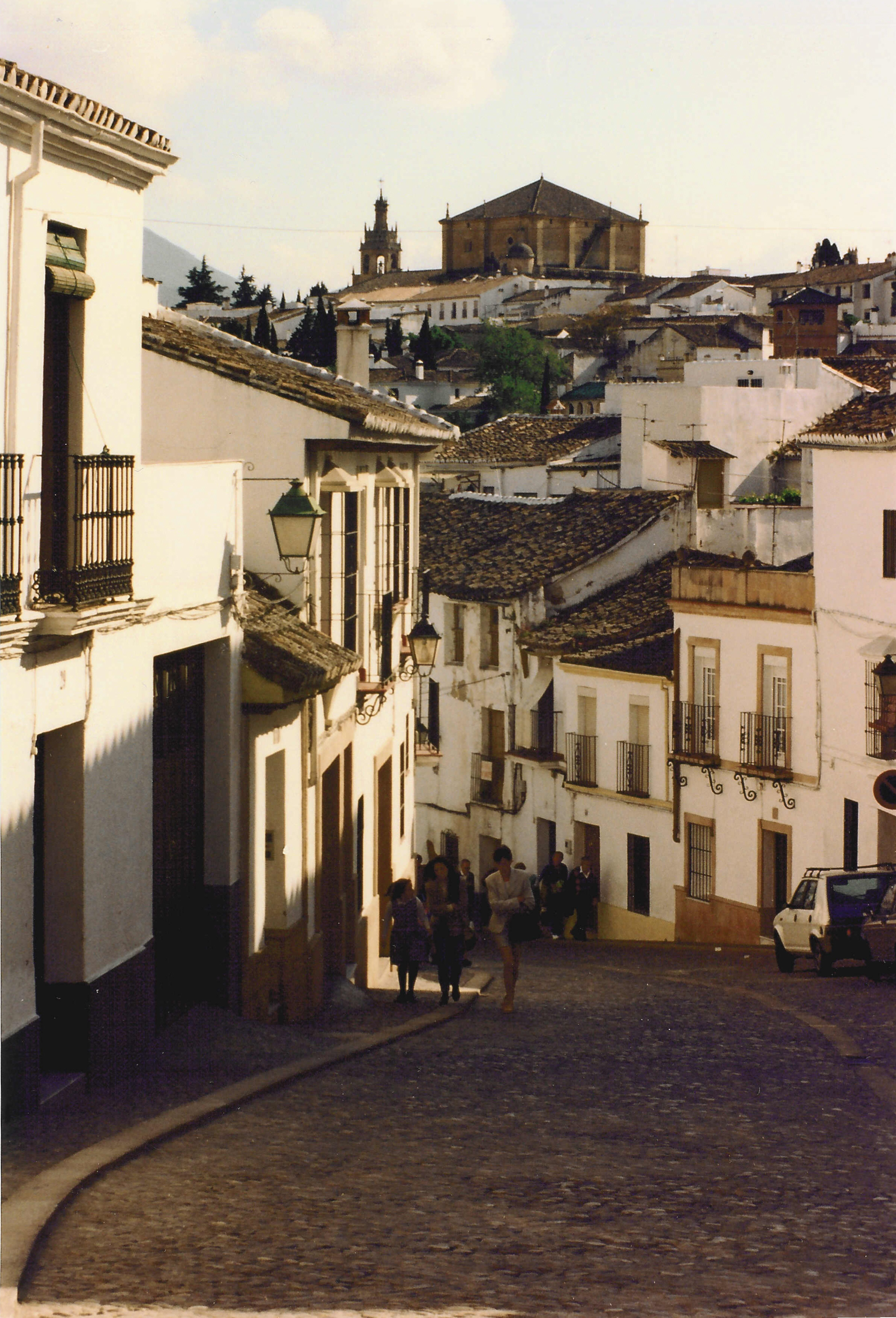 View toward the Church of Santa Maria la Mayor, Ronda, Andalusia, Spain.